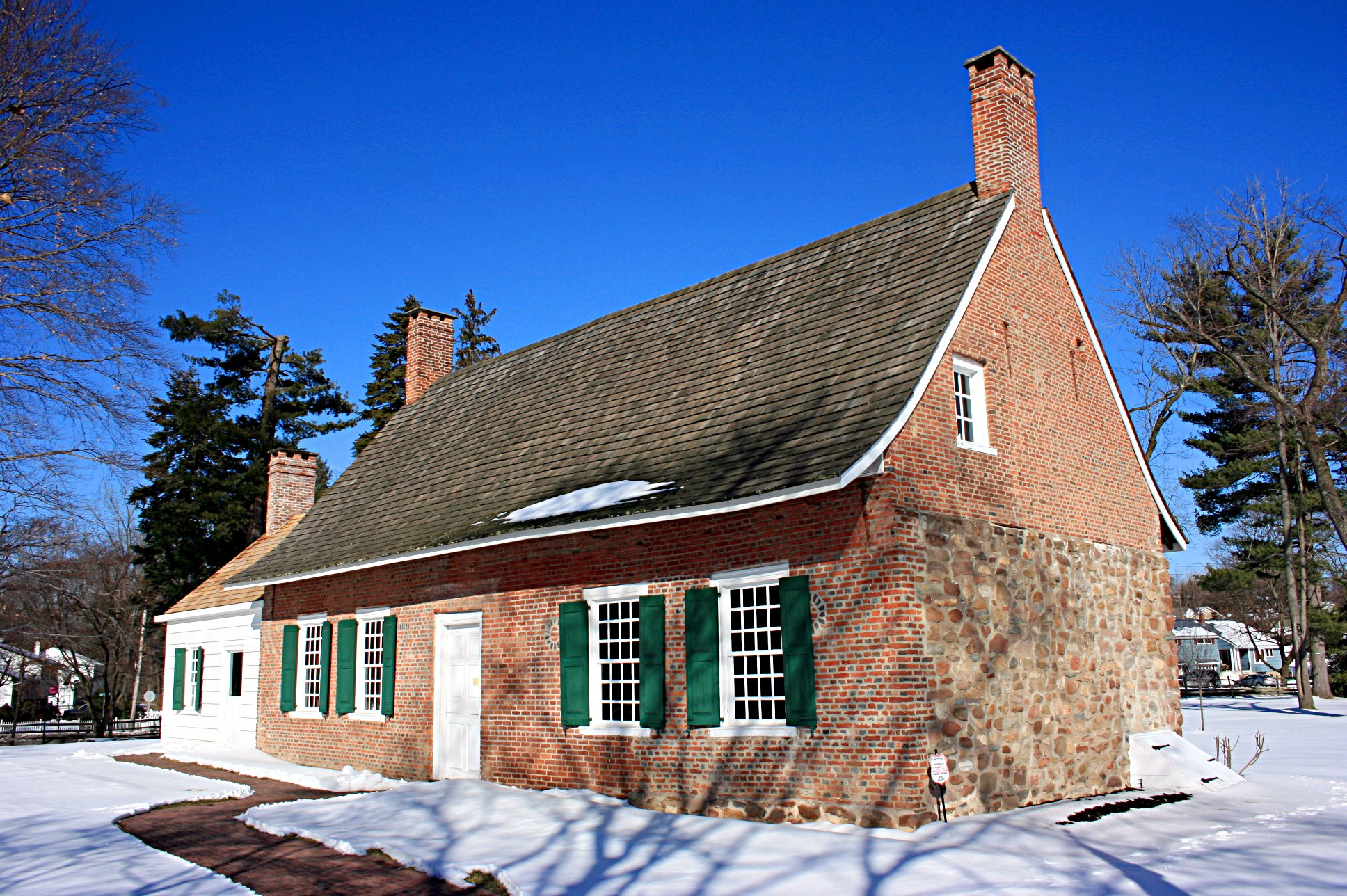 Photograph of the main house of the DeWint House, Tappan, New York, USA